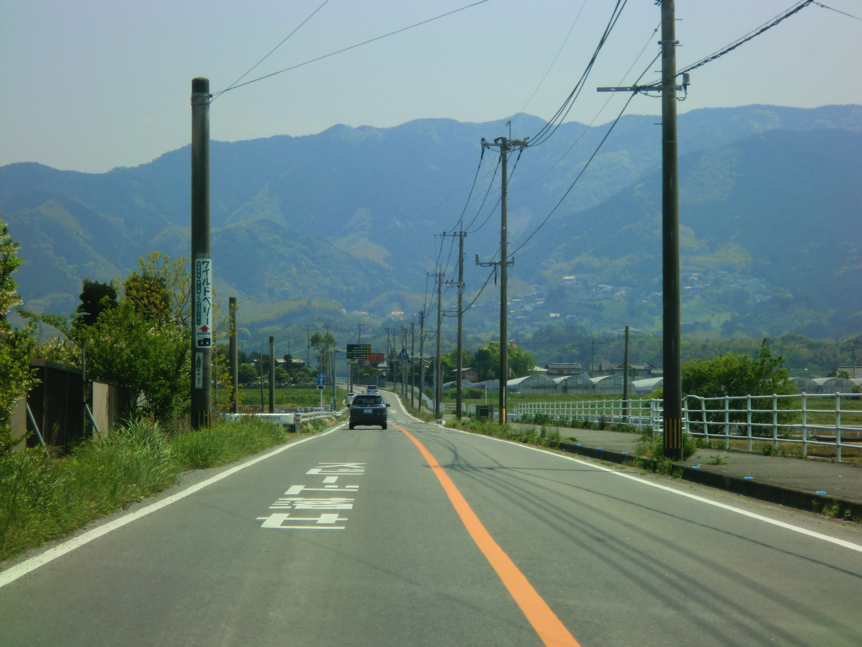 Fukuoka Prefectural Road No.56 running in Itoshima,Fukuoka,Japan.